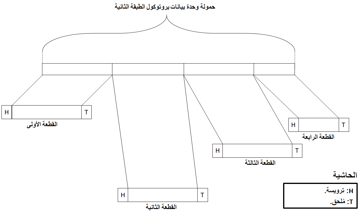 The Concept of Fragmentation in Wireless Local Area Network